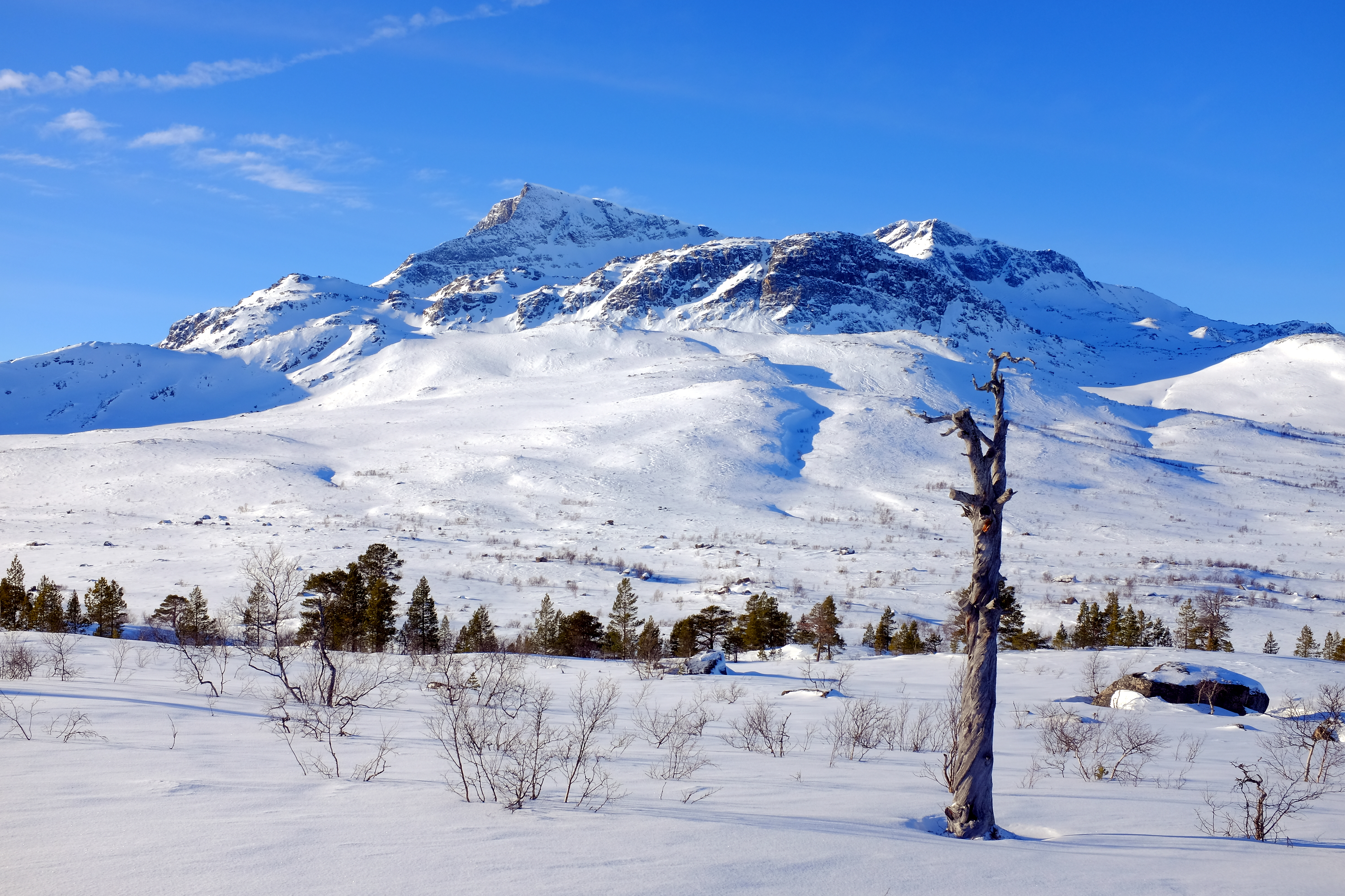 Snota peek seen from Bossvasshøgda hill, Trollheimen, Surnadal, Møre og Romsdal, Norway.